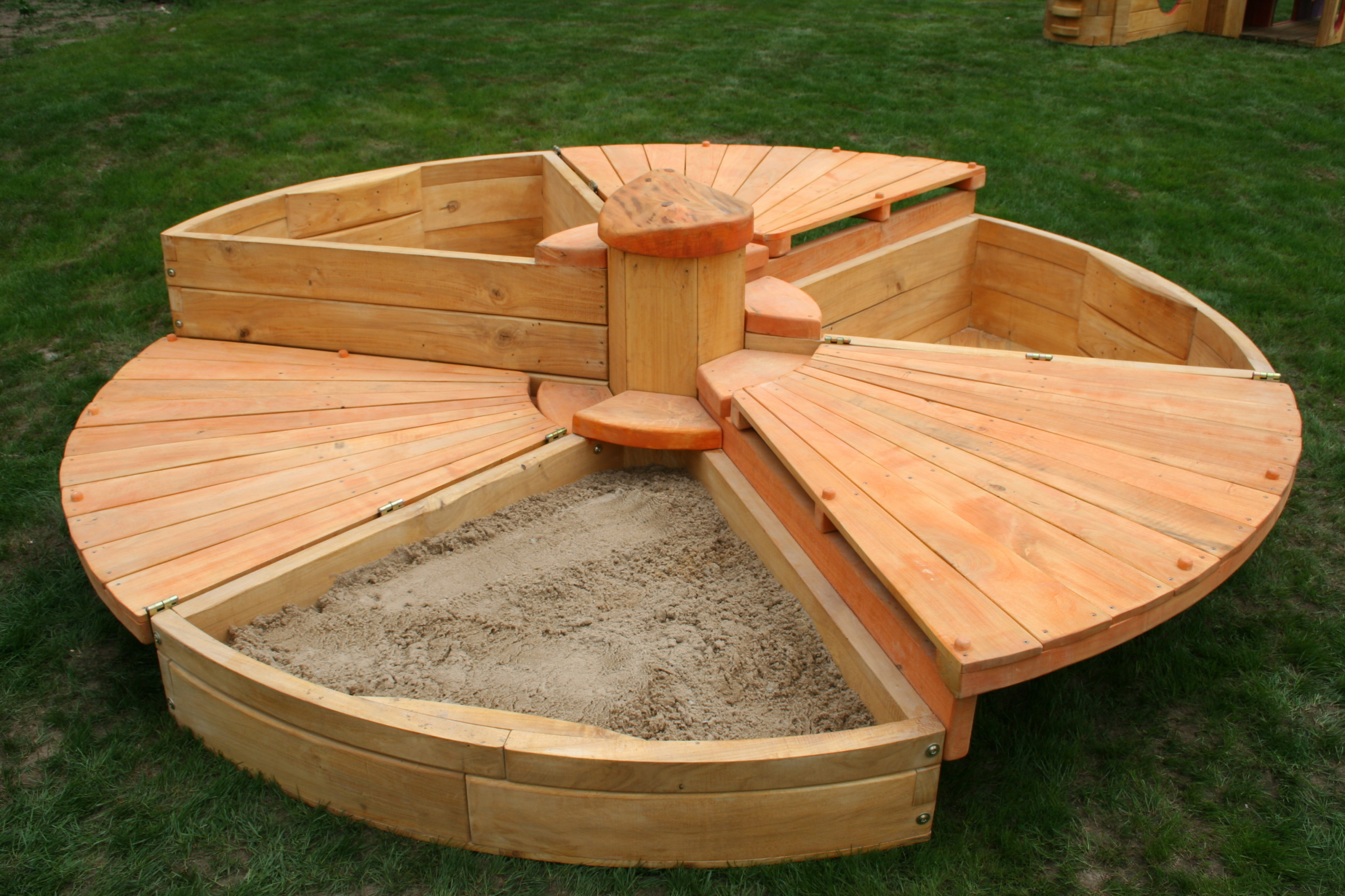 A closed wooden sandpit for children.